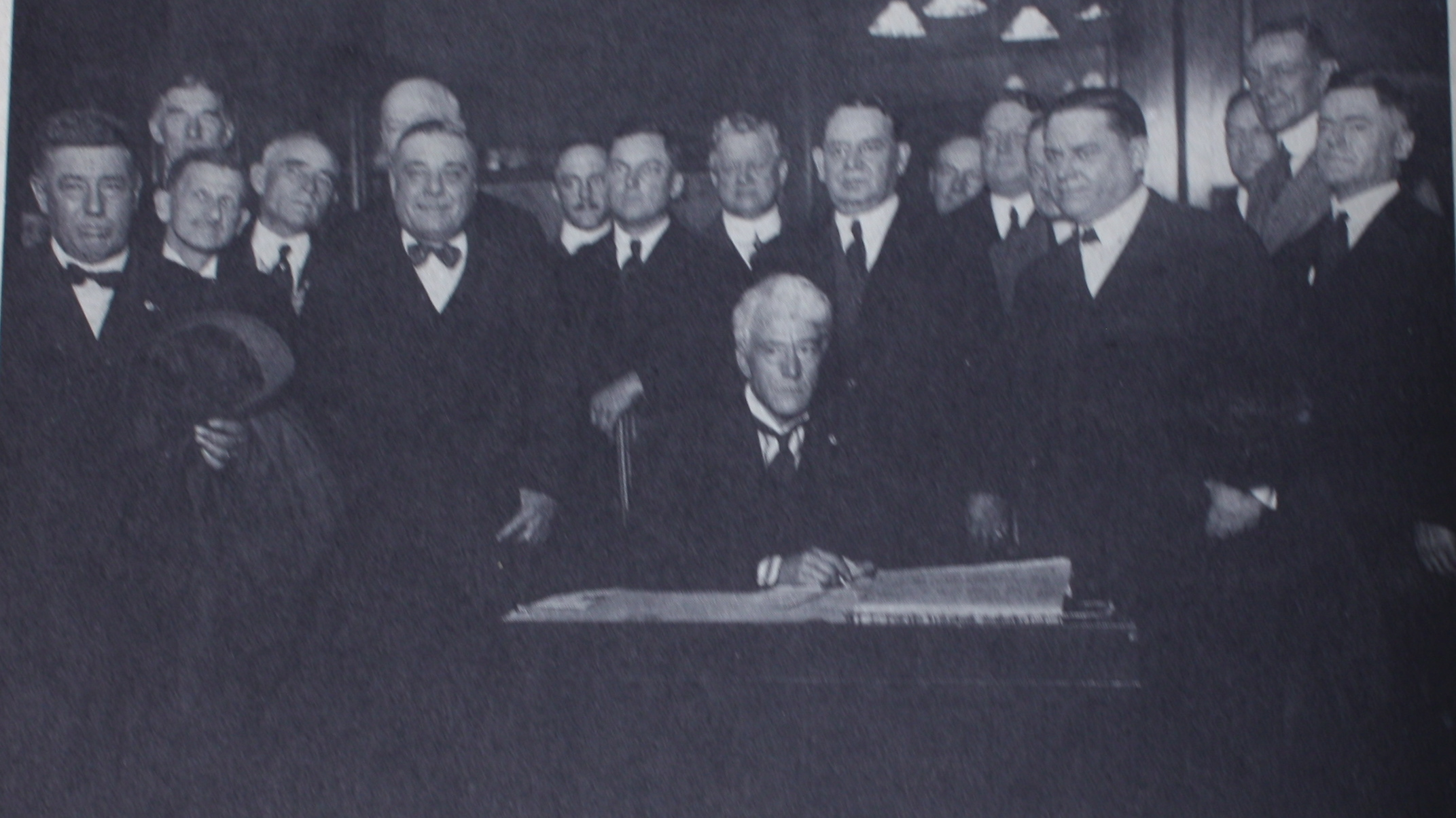 Judge Kenesaw Mountain Landis is surrounded by baseball owners as he agrees to be Commissioner of Baseball, November 12, 1920: This photograph was printed in the Chicago Tribune and reprinted in The Sporting News (November 18, 1920). It is reprinted in Spink, John George Taylor (1974) Judge Landis and 25 Years of Baseball, Missouri, United States: Sporting News Publishing Company, pp. p. 70